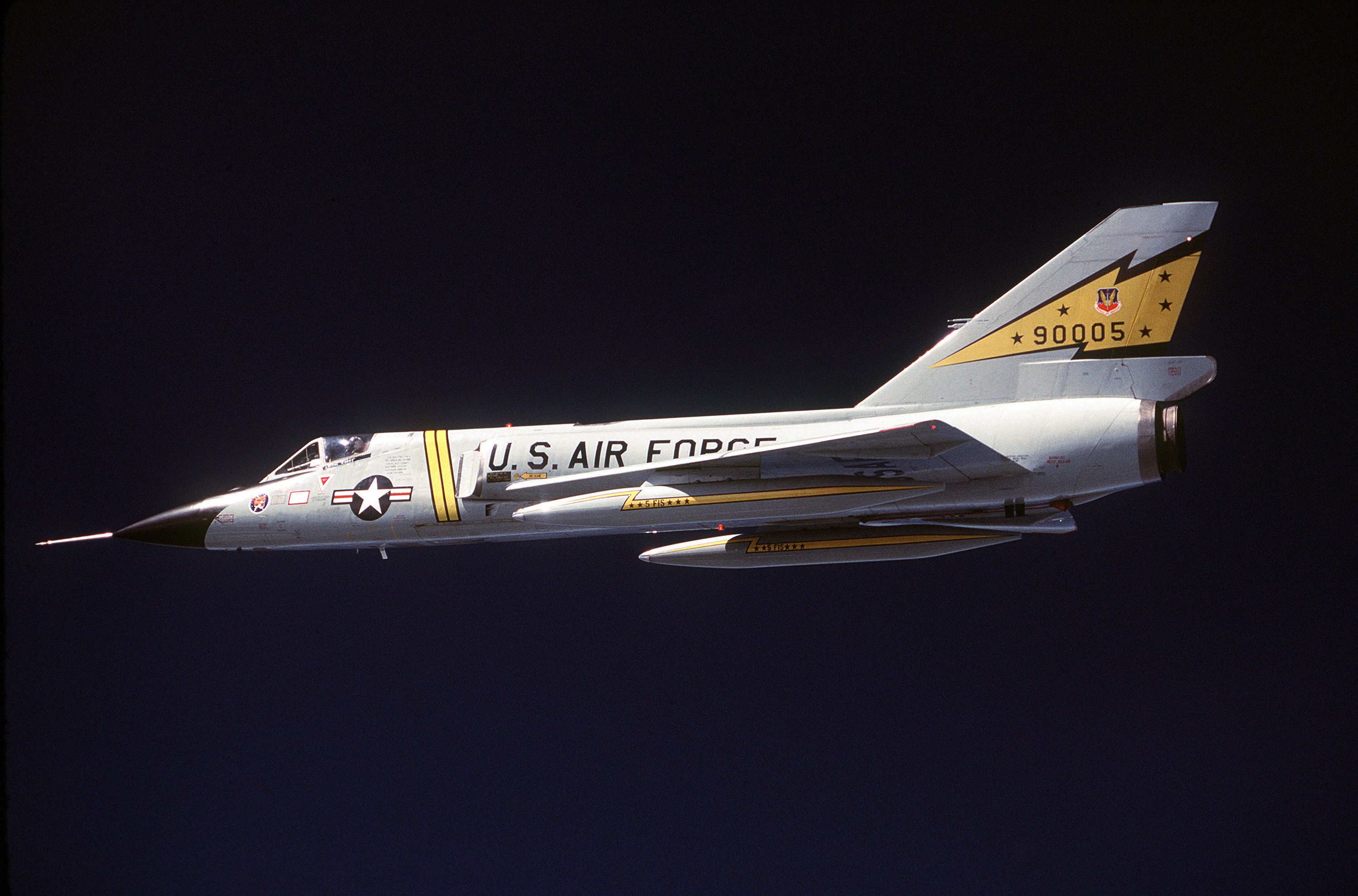 An air-to-air left side view of an F-106 Delta Dart aircraft being piloted by a squadron commander during a training mission. The aircraft are from the 5th Fighter Interceptor Squadron, Minot Air Force Base, North Dakota.